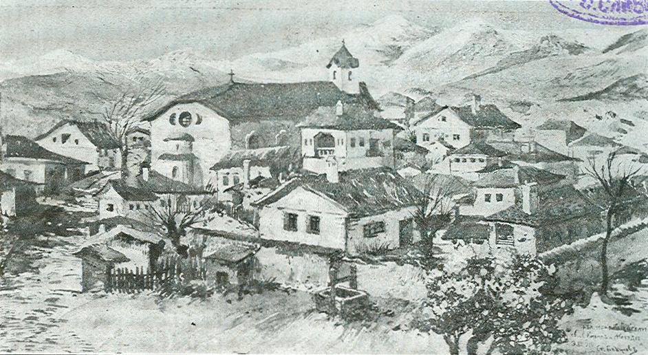 St. Cyril and Methodius Church in Gevgelija, Macedonia